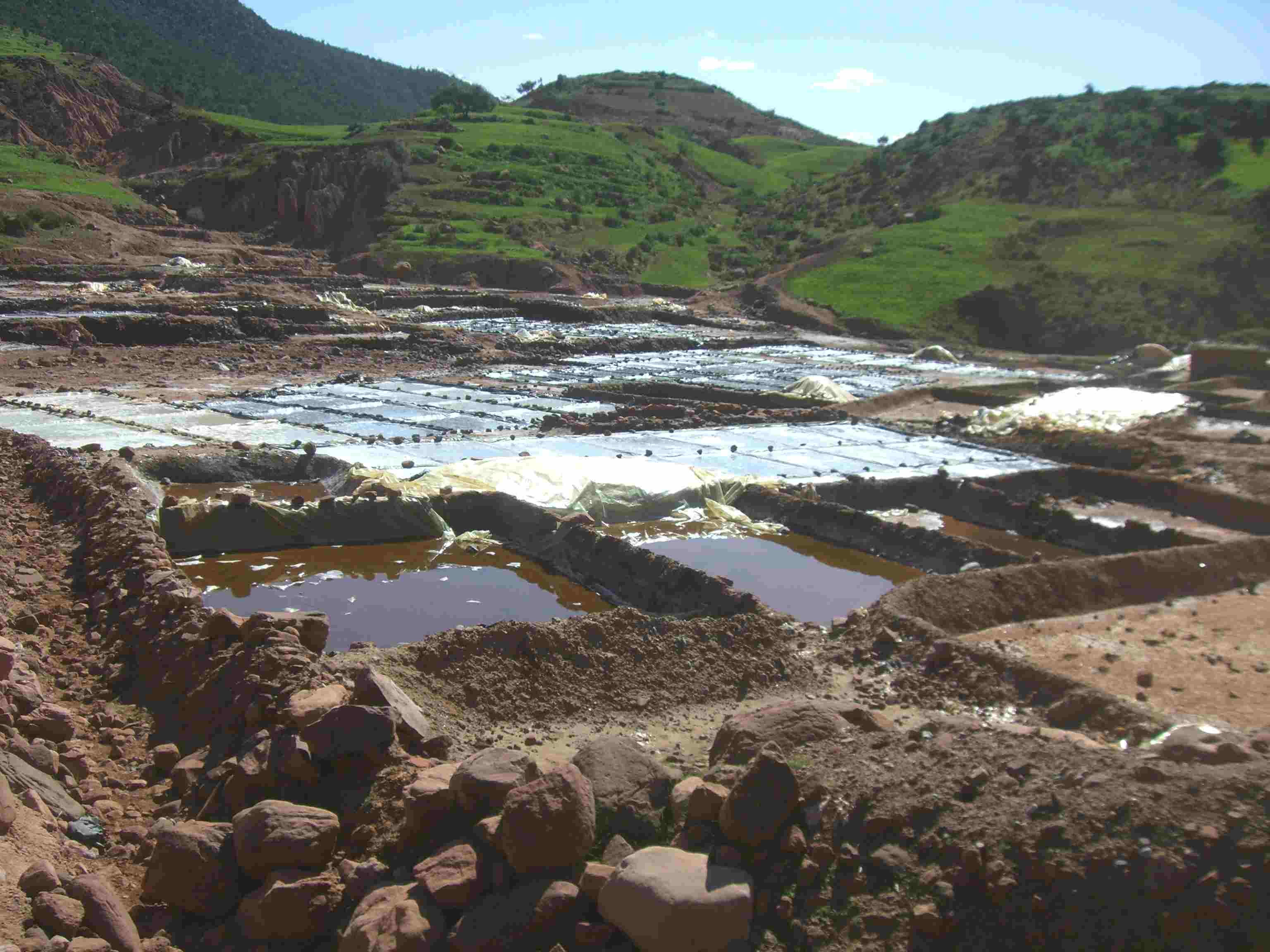 Salt ptoduction in Ourika Valley near Marrakech